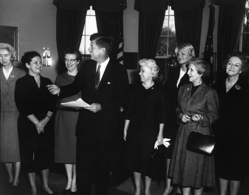 President John F. Kennedy meets with recipients of the 1962 Federal Woman’s Award for outstanding contributions to government. (L-R) Dr. Allene R. Jeanes, Research Chemist at the Department of Agriculture; Evelyn Harrison, Deputy Director of the Bureau of Programs and Standard at the Civil Service Commission; Dr. Nancy Grace Roman, Chief of Astronomy and Solar Physics at the National Aeronautics and Space Administration (NASA); President Kennedy; Margaret H. Brass, Attorney at the Department of Justice; Katherine W. Bracken, Director of the Office of Central American and Panamanian Affairs at the Department of State; Dr. Thelma B. Dunn, cancer researcher at the National Cancer Institute; Katie Louchheim, Deputy Assistant Secretary of State for Public Affairs (accompanying the recipients). Oval Office, White House, Washington, D.C.